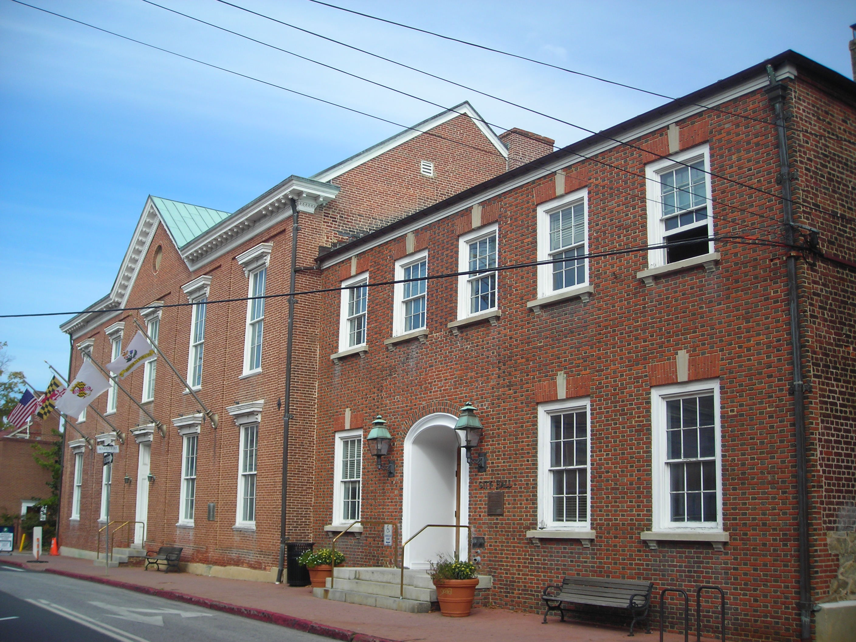 Annapolis City Hall - 160 Duke of Gloucester St.